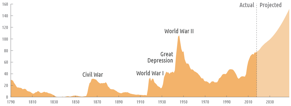 Federal Debt Held by the Public (as a percentage of gross domestic product) from 1790 to 2013, projected until 2038 under CBO’s Extended Baseline